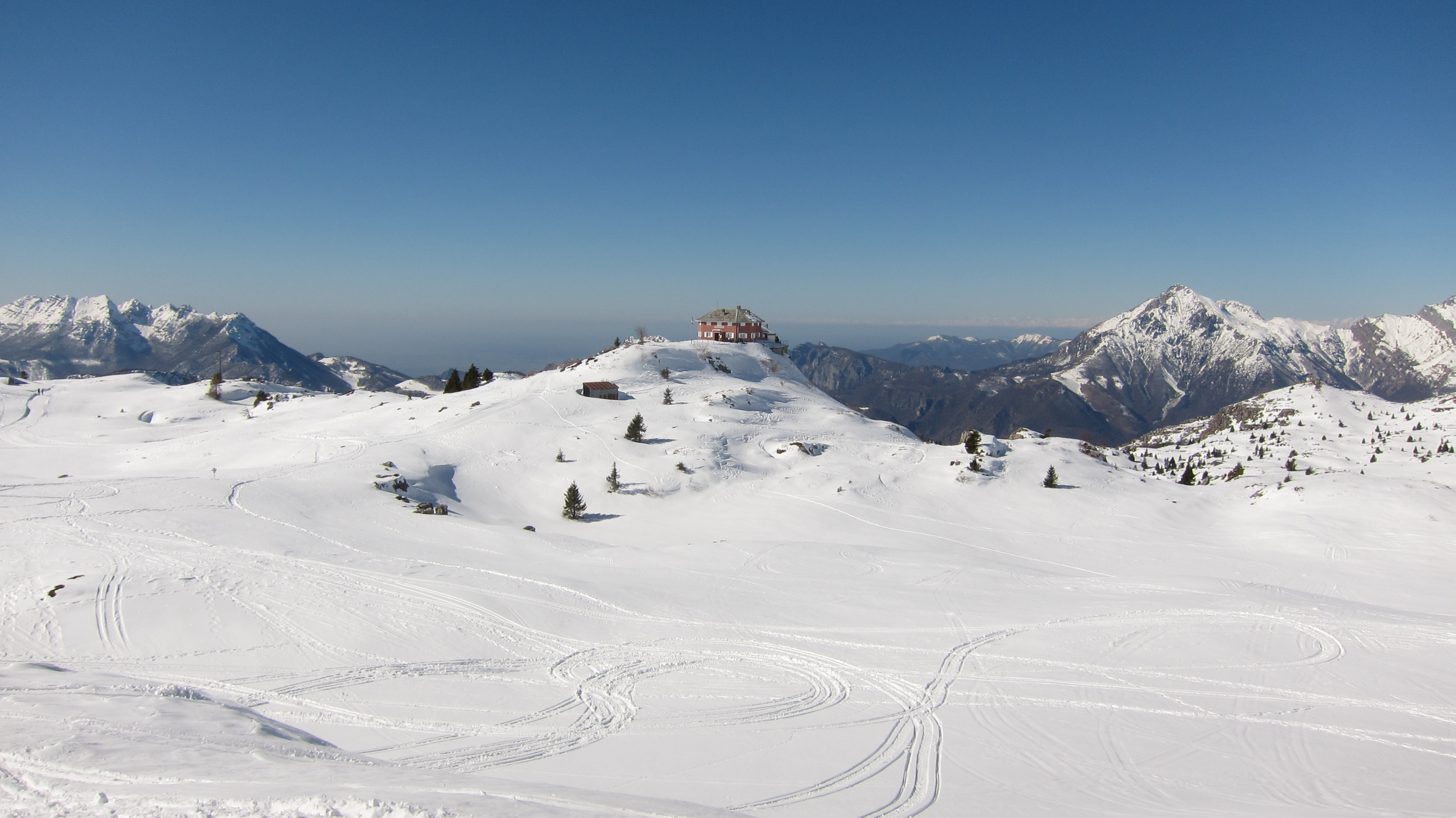 The mountain shelter "Rifugio Cazzaniga Merlini" on the Piani di Artavaggio mountain plain covered in snow in Lombardy nearby Lecco city. You can see mountain Resegone and Pianura Padana in the background. Picture taken on the 19th of March in 2016.